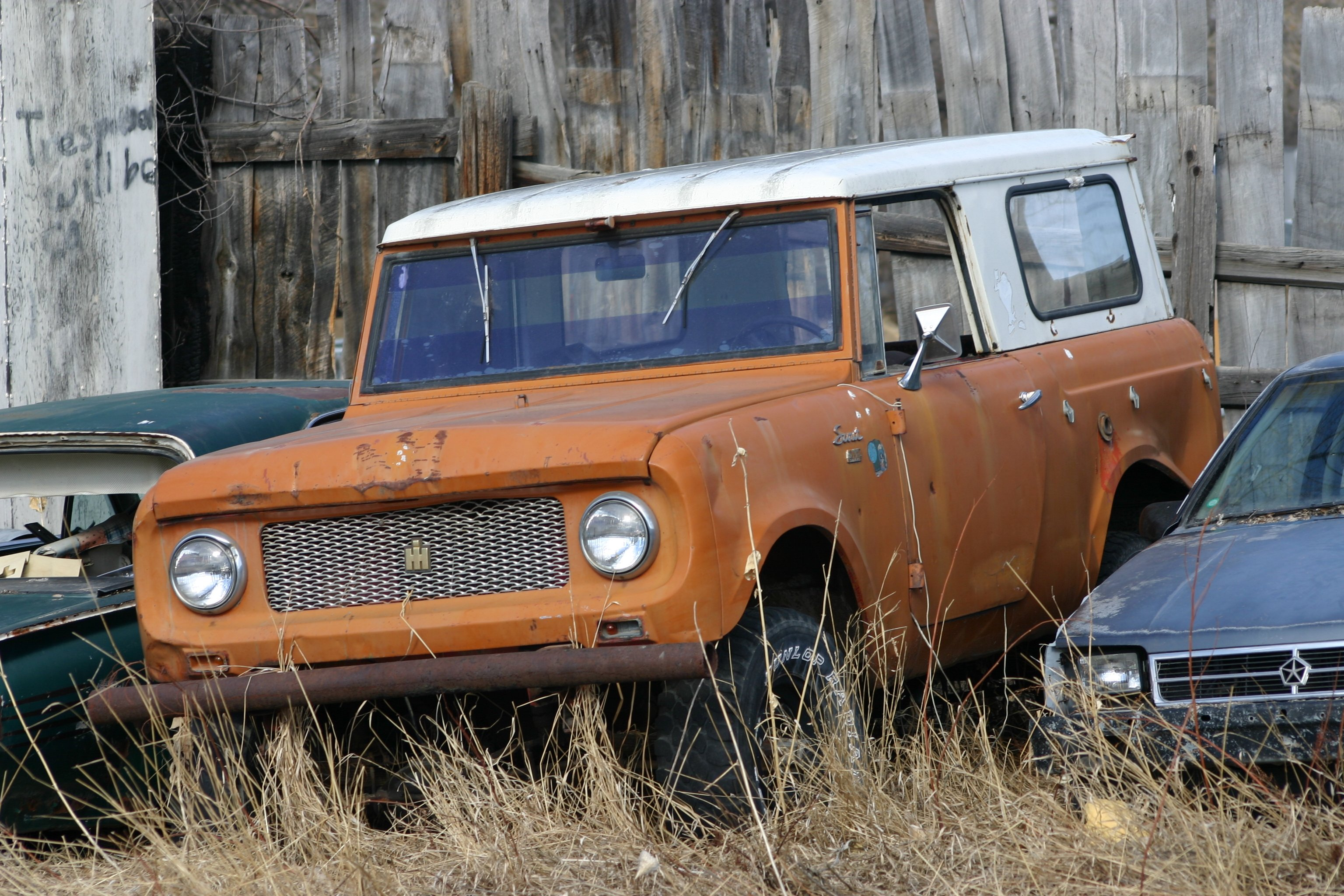 1962-1965 International Harvester Scout 80 with the roll-down windows; they became available as an option beginning in July 1962.